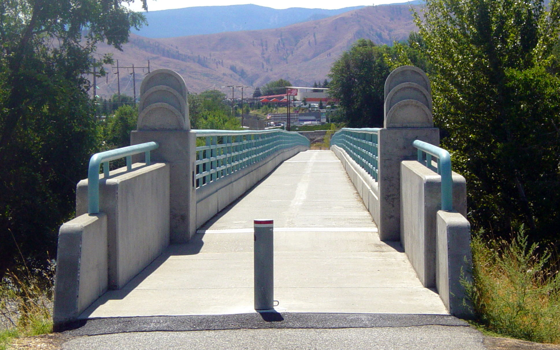 Footbridge on Apple Capital Recreation Loop Trail